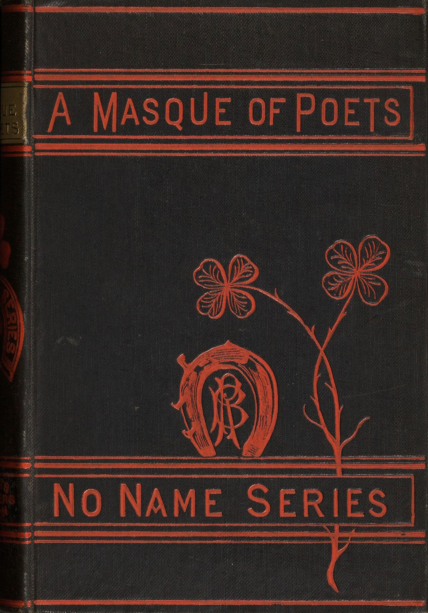 Cover: A Masque of Poets, Boston: Roberts brothers, 1878. Edited by George Parsons Lathrop (1851-1898). The book collected several anonymous poems, including one by Emily Dickinson. 72S-700, Houghton Library, Harvard University